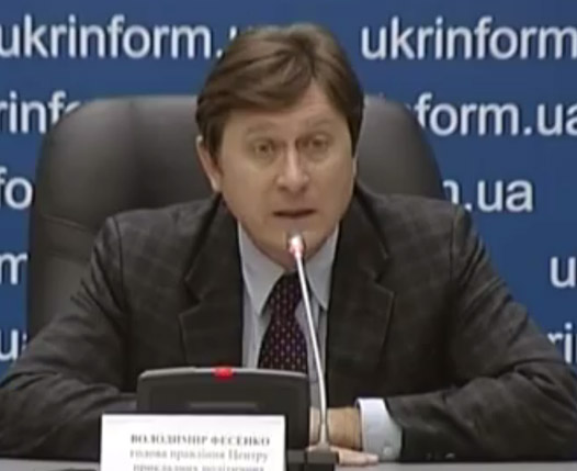 Volodymyr Fesenko, Ukrainian political scientist